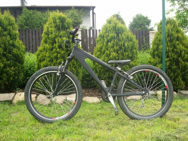 Hardtail - Arkus Blade